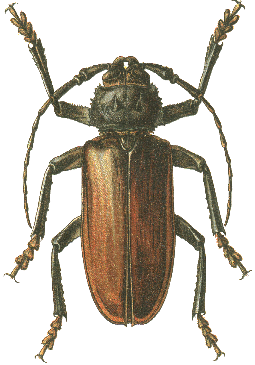 Rhaesus_serricollis = Rhesus_serricollis